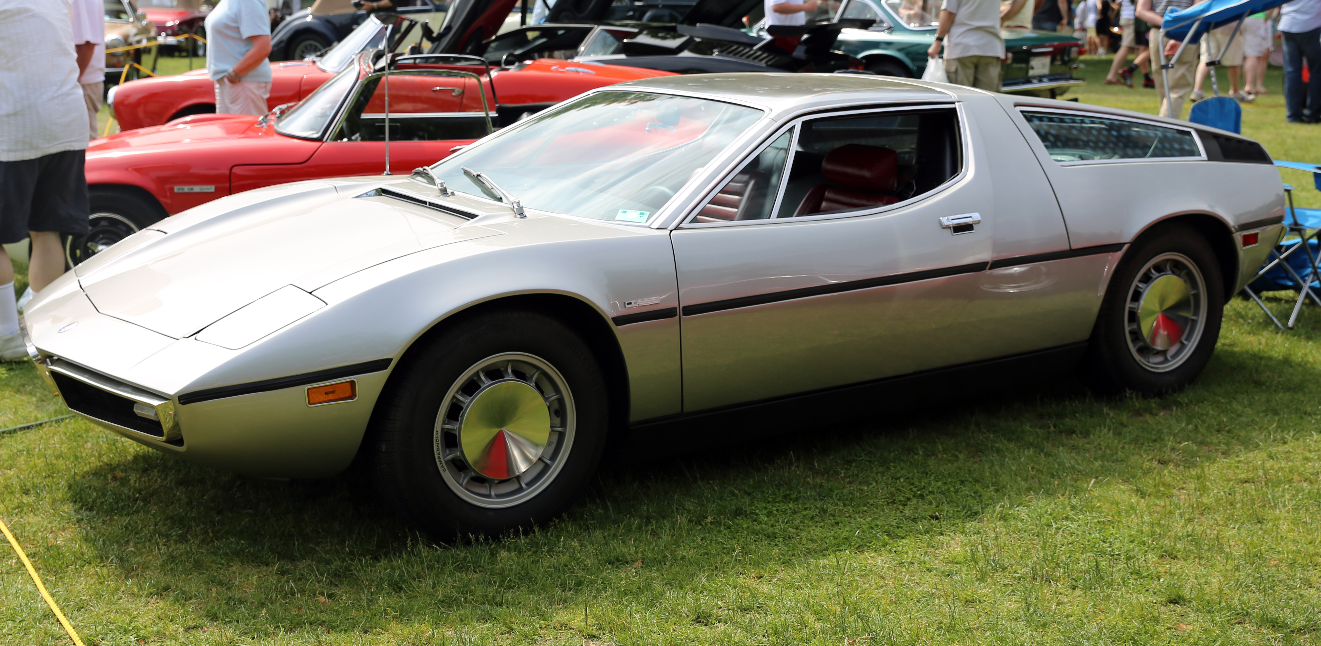 1973 Maserati Bora (Euro-spec) at the 2013 Greenwich Concours d'Elegance.